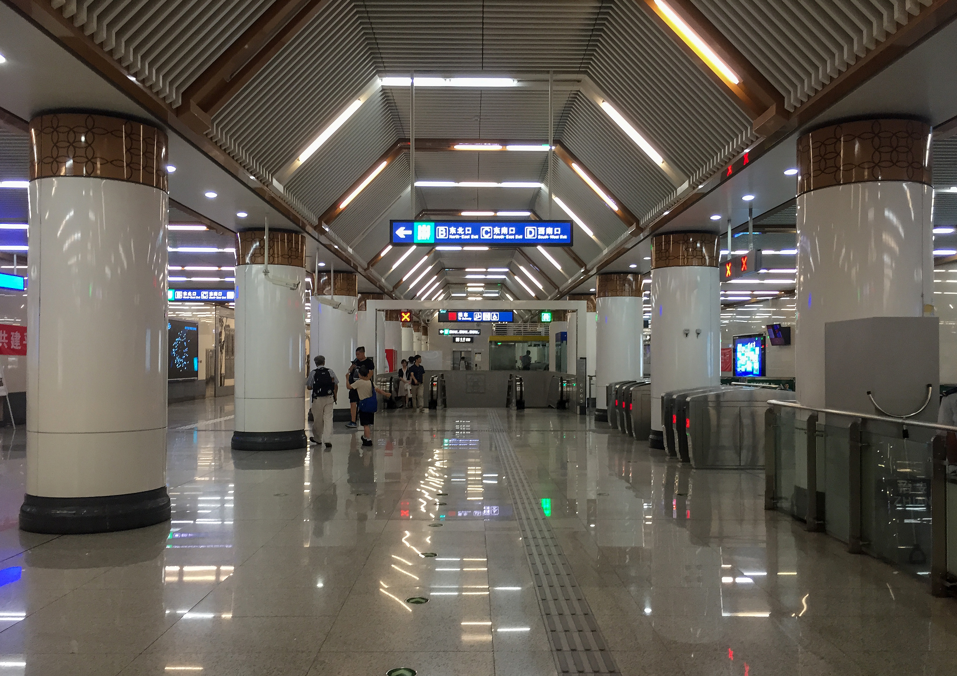 Heading for Shoupakou.